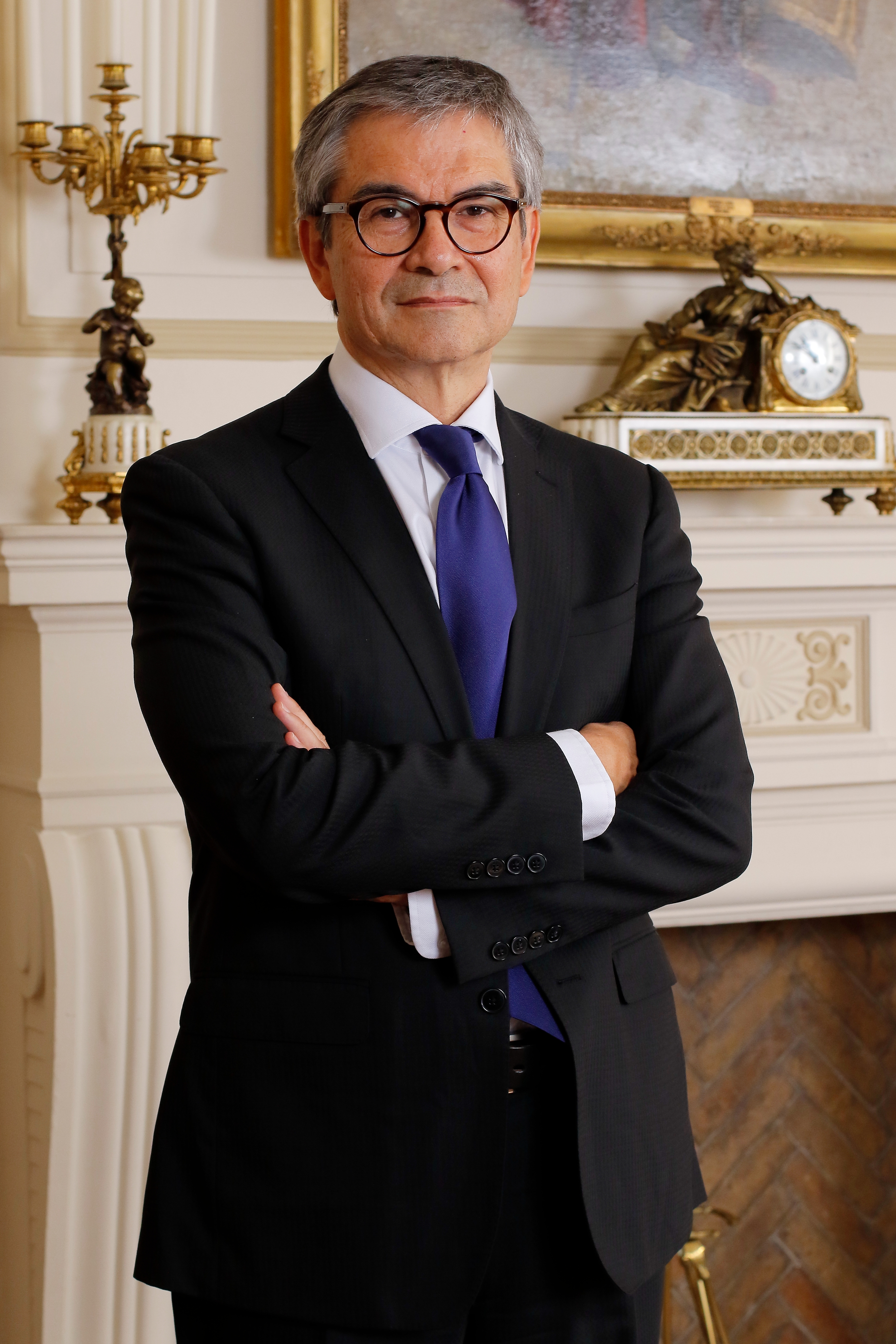 Mario Marcel Cullell is a Chilean economist and the Governor of the Central Bank of Chile. He was named Governor in December 2016 and member of the Bank's Board from October 2015.